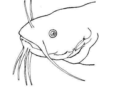 Line art drawing of a Catfish